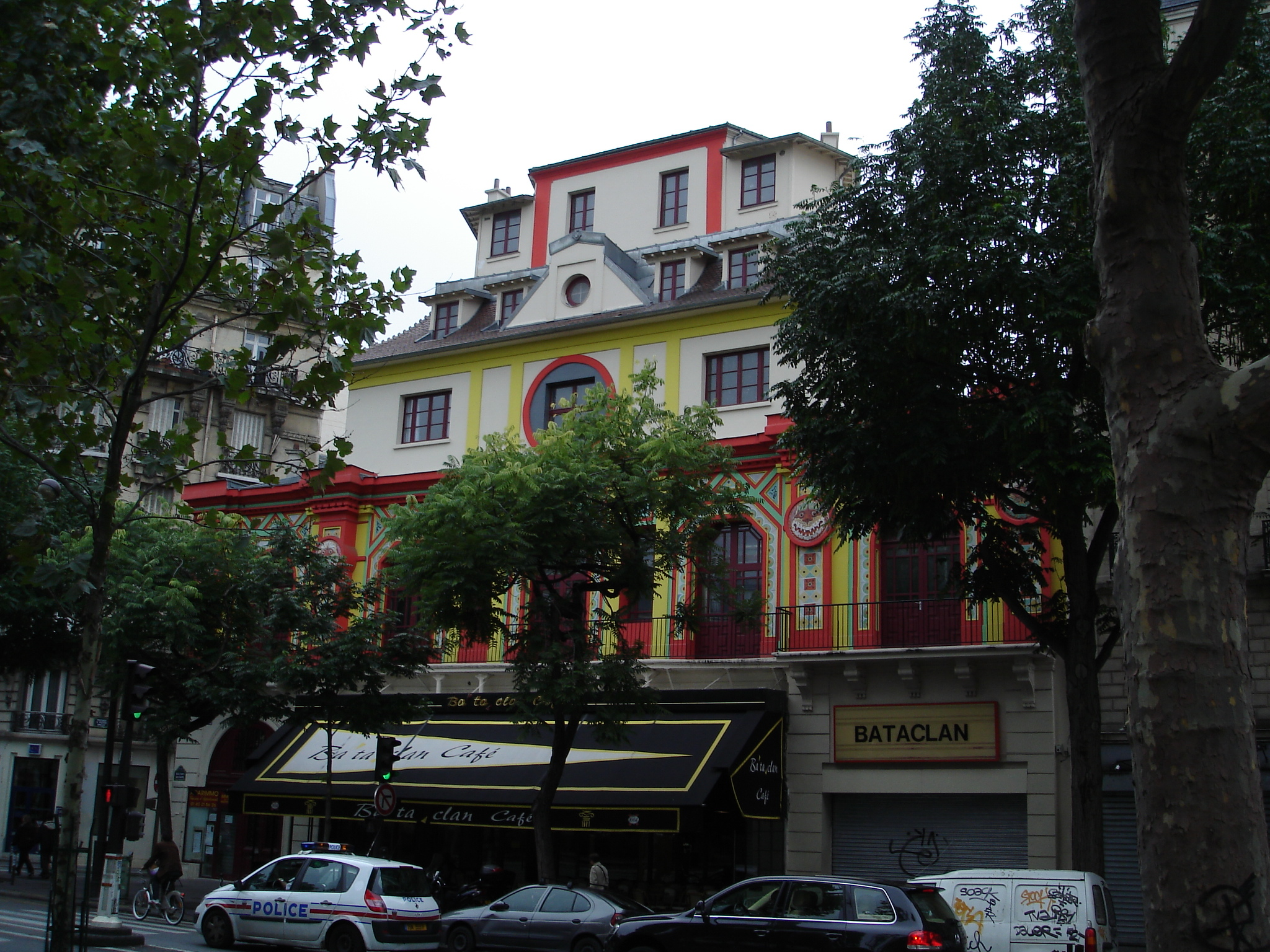 Music-hall Bataclan; boulevard Voltaire; Paris